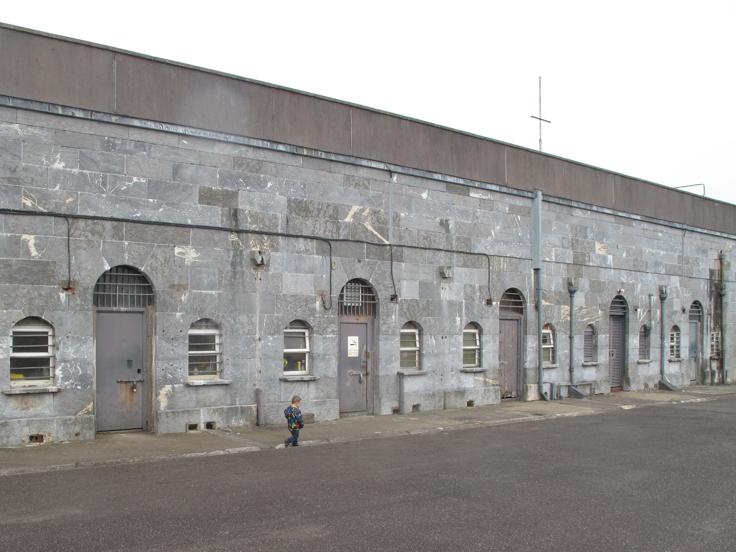 Spike Island, County Cork. Prison block within Fort Mitchel